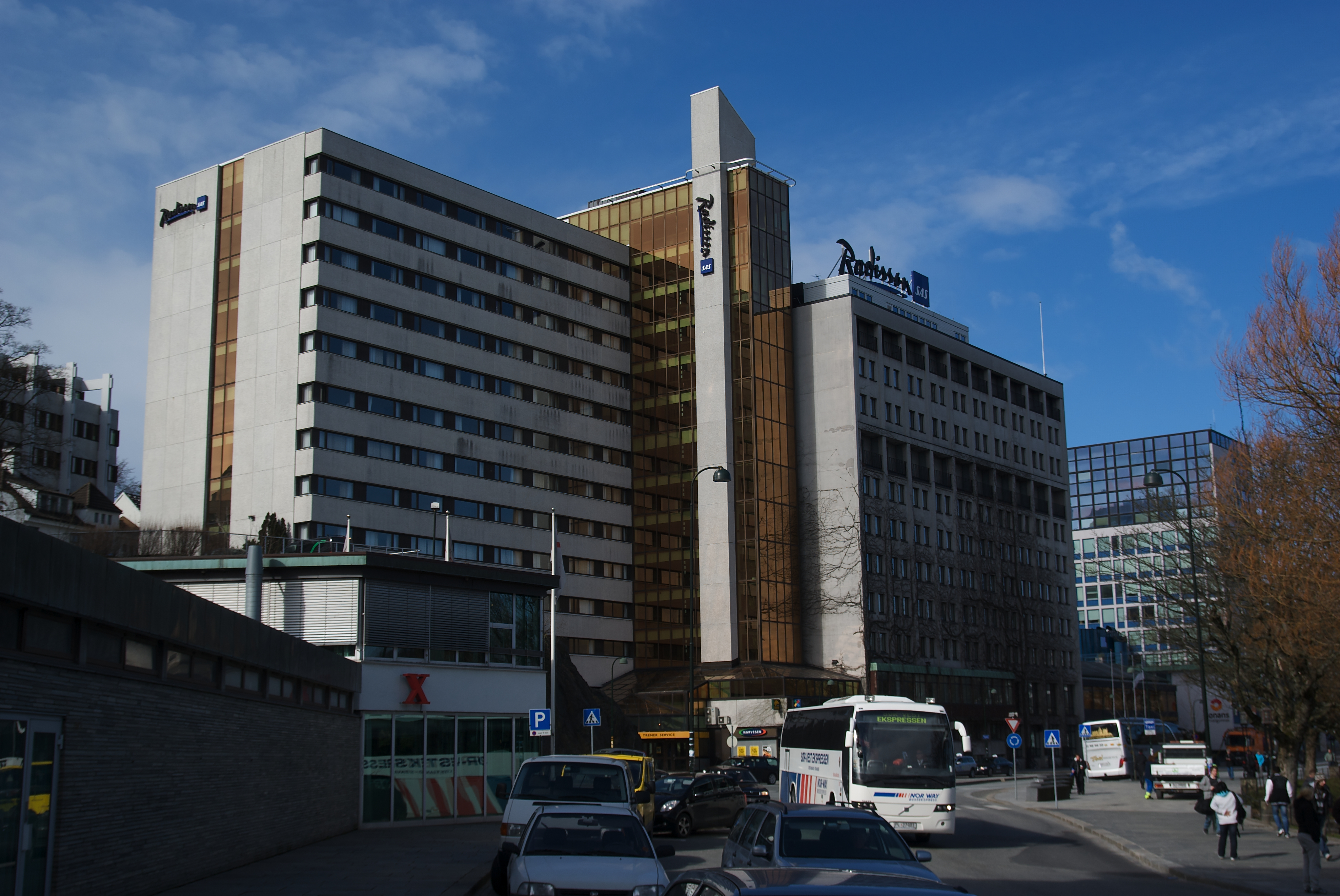 The Radisson Hotel building in Stavanger, Norway.